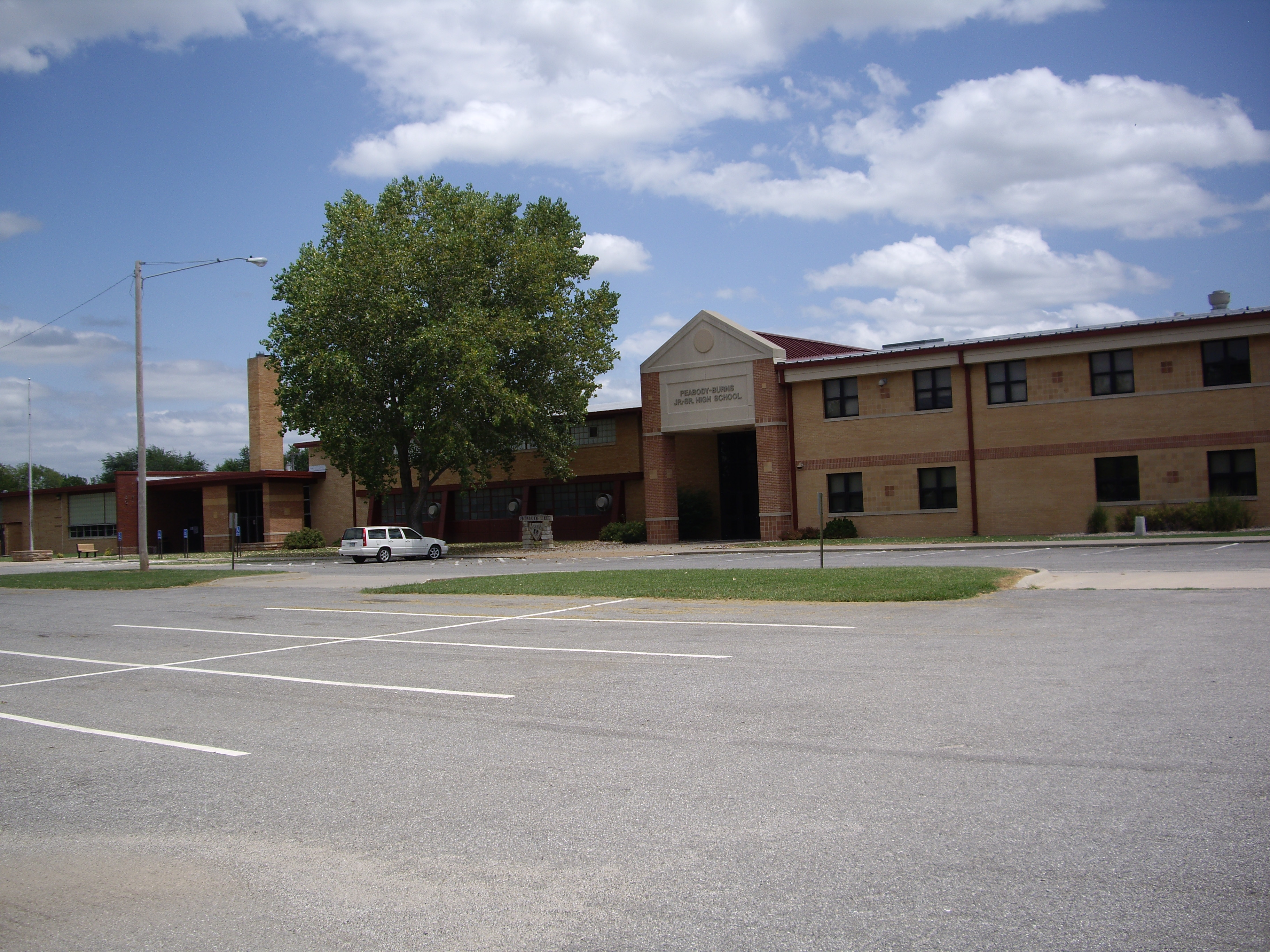 Peabody-Burns Junior-Senior High School, 810 N Sycamore St, Peabody, Kansas, 666866, USA. Looking northeast. Photo by Steve Meirowsky on August 4, 2010.